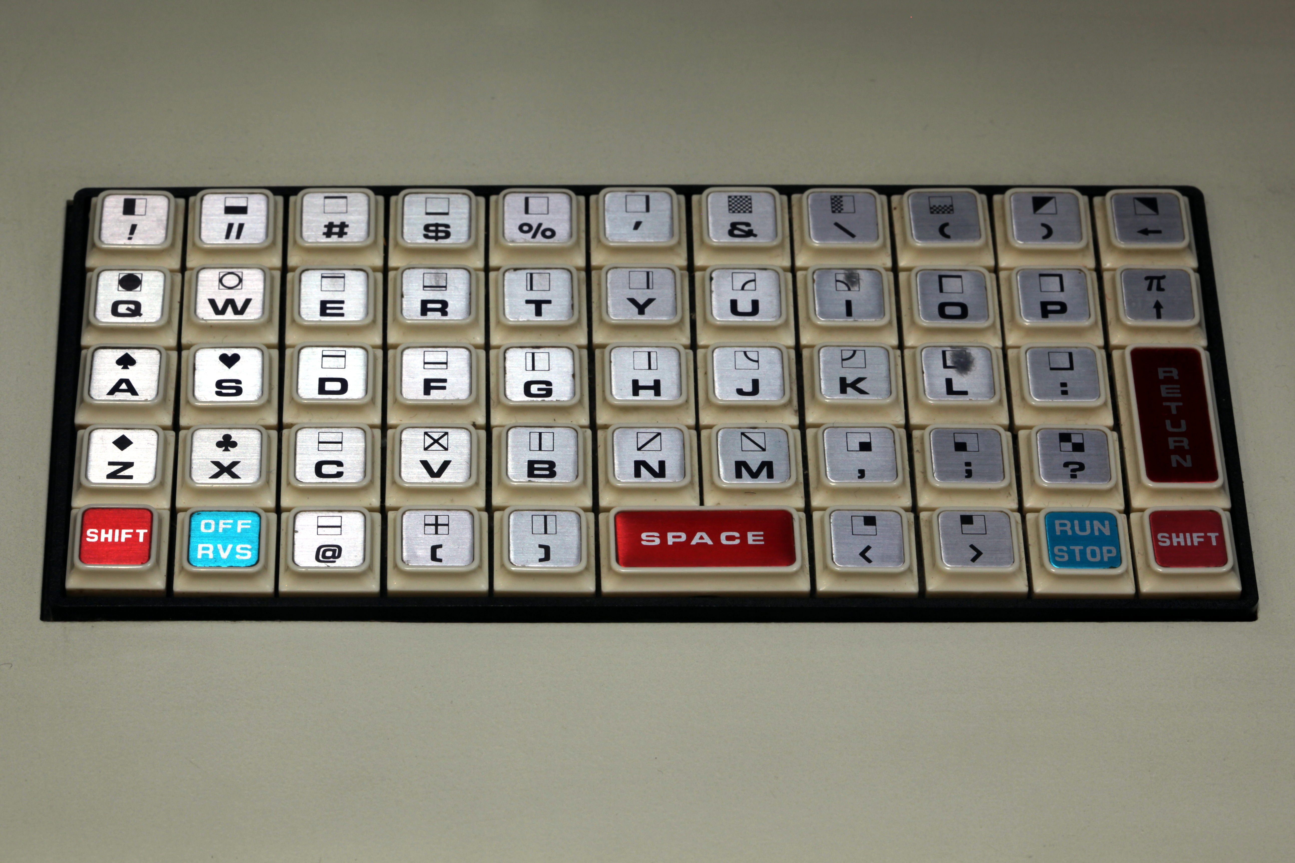 Commodore PET 2001 computer. On display at the Musée Bolo, EPFL, Lausanne. The making of this document was supported by Wikimedia CH. (Submit your project!) For all the files concerned, please see the category Supported by Wikimedia CH.